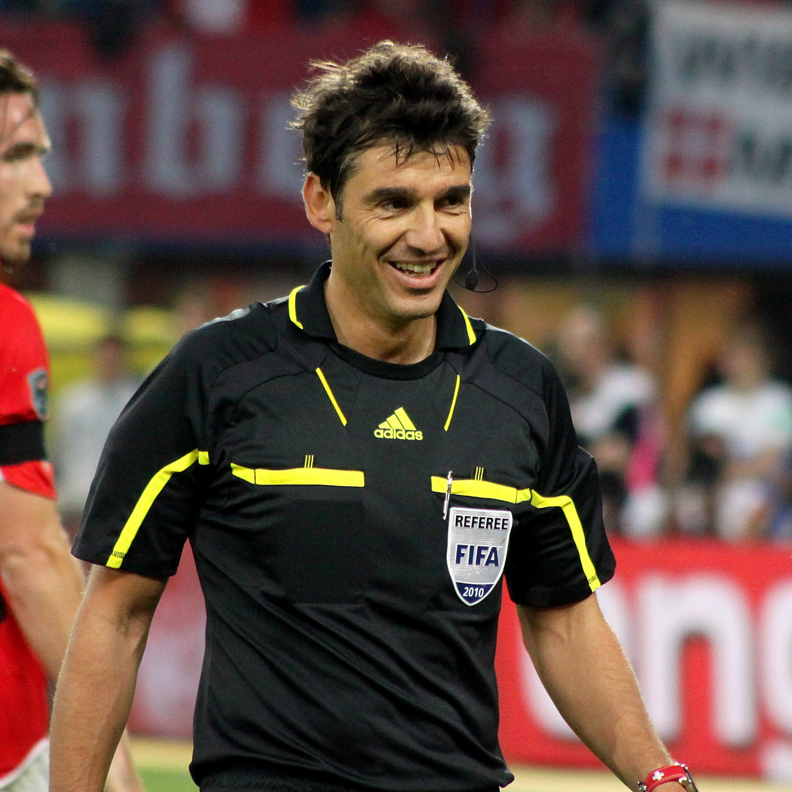 Massimo Busacca, FIFA-Referee of Switzerland - OpenStreetMap(Info)